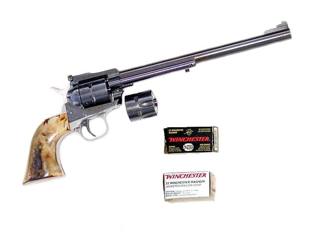 Convertible Single Six 9.5" barrel